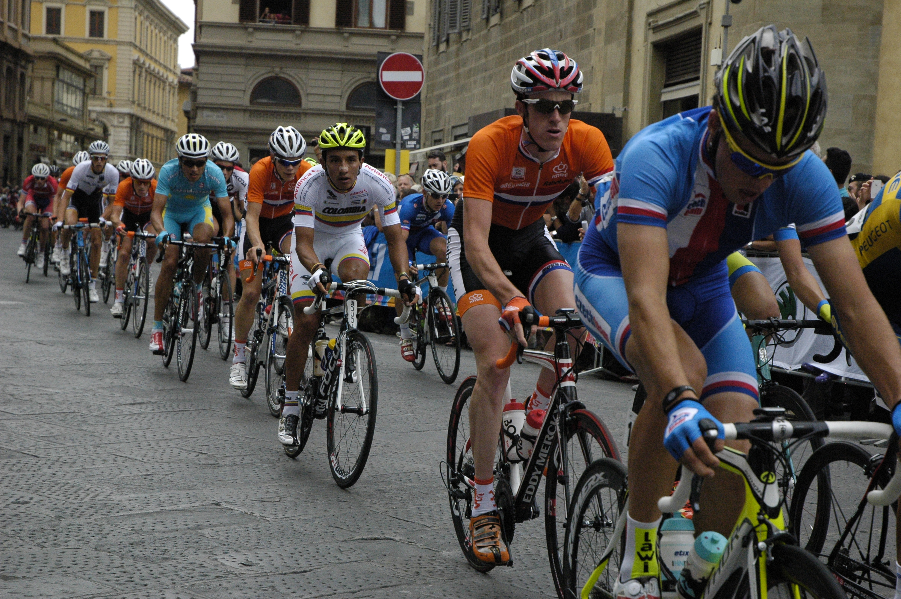 2013 UCI Road World Championships – Men's under-23 road race